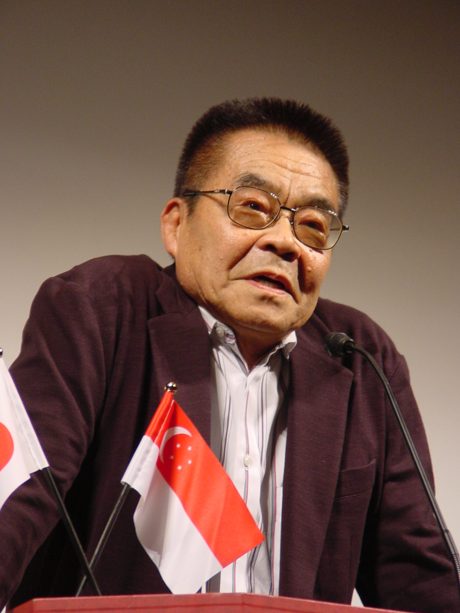 Japanese manga artist Yoshihiro Tatsumi in Tokyo, October 2010